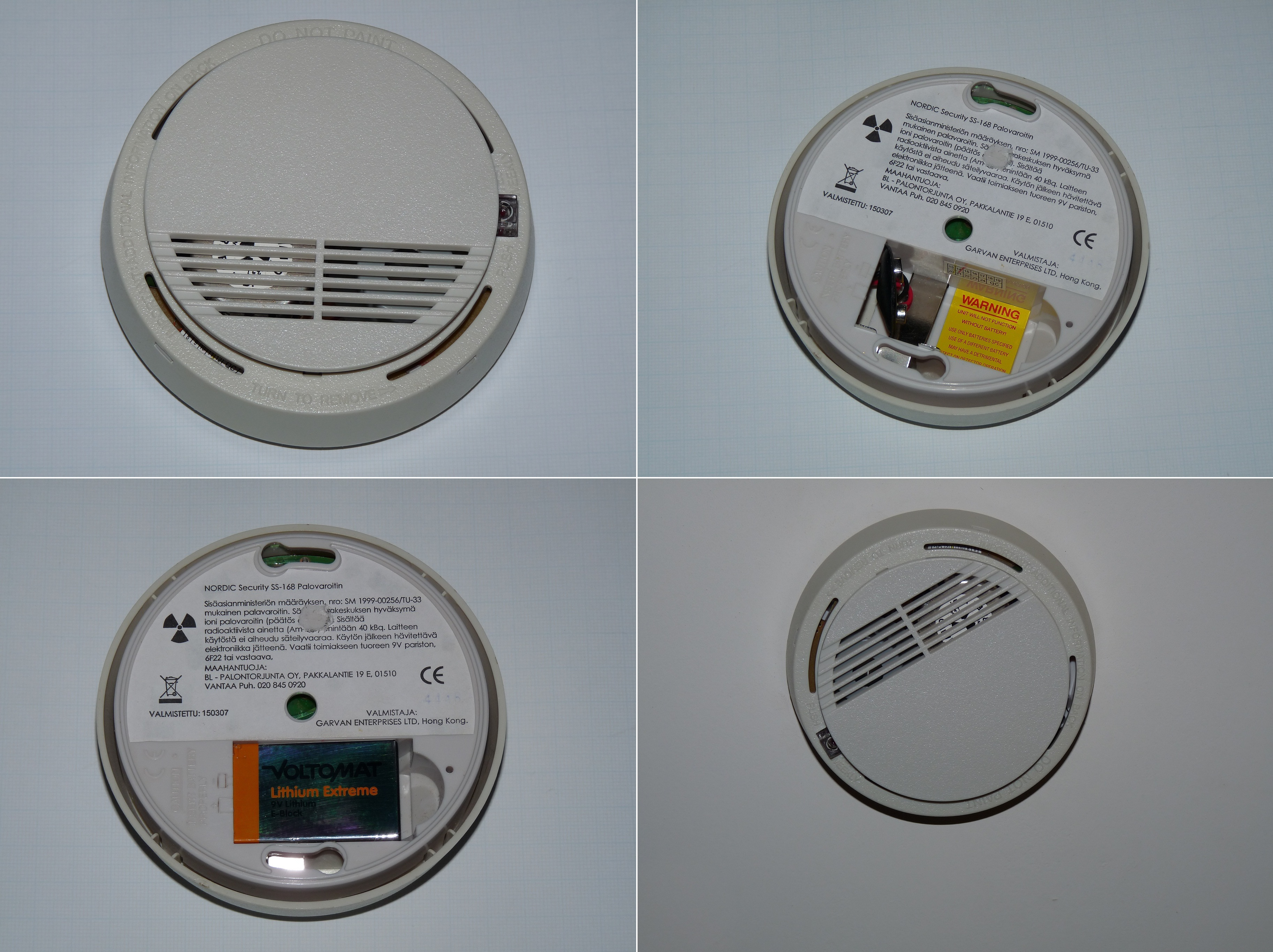 Smoke detector